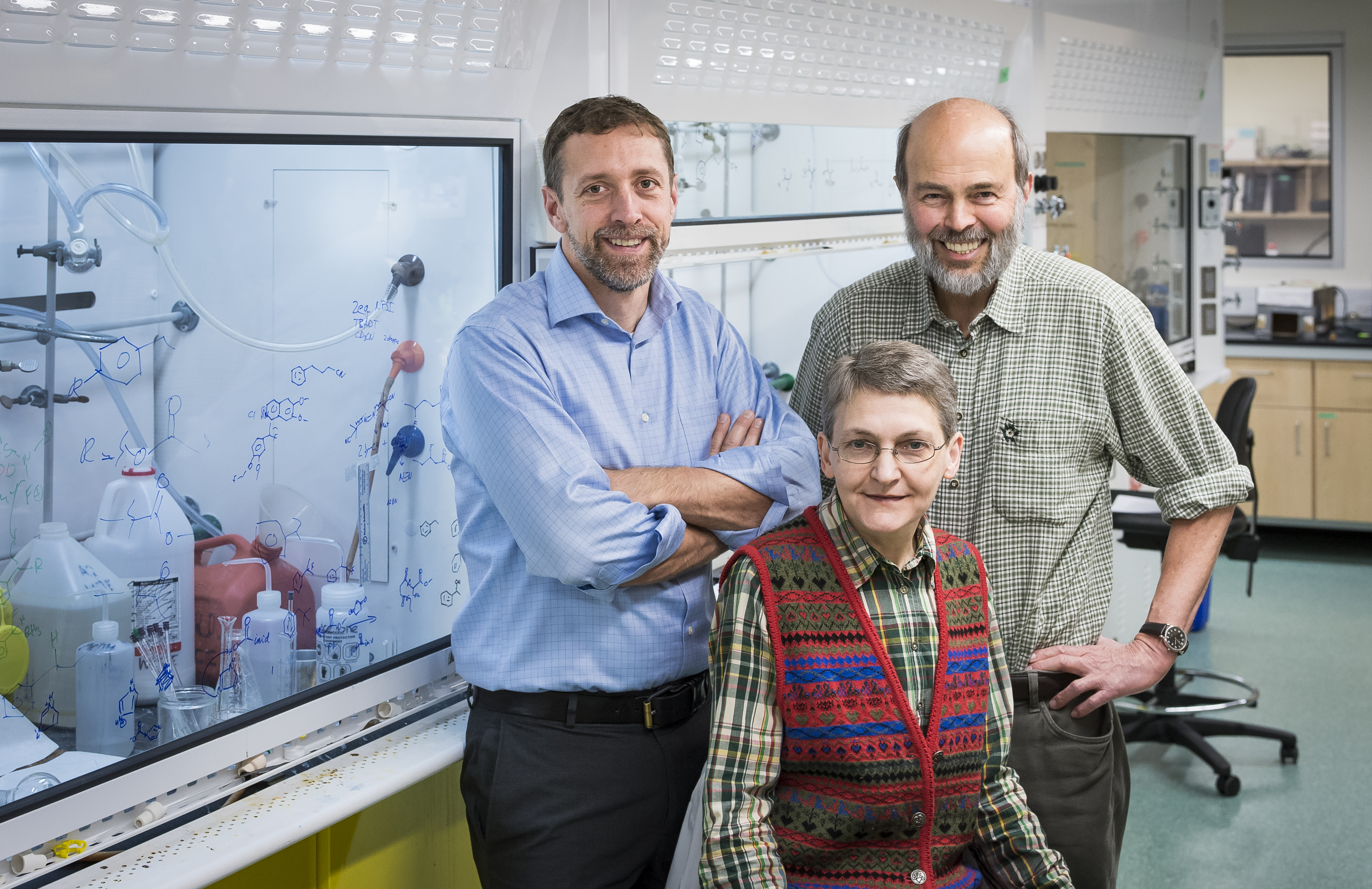 SFU chemist Robert Britton (left) and biologists Gerhard Gries and Regine Gries smile with pride, knowing that they may have cornered and put to bed the dreaded bedbug for life.